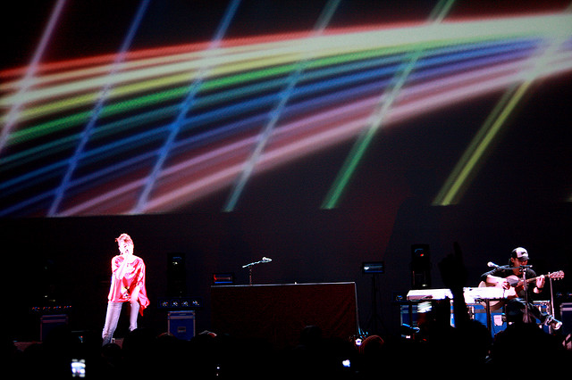 Live of FreeTEMPO